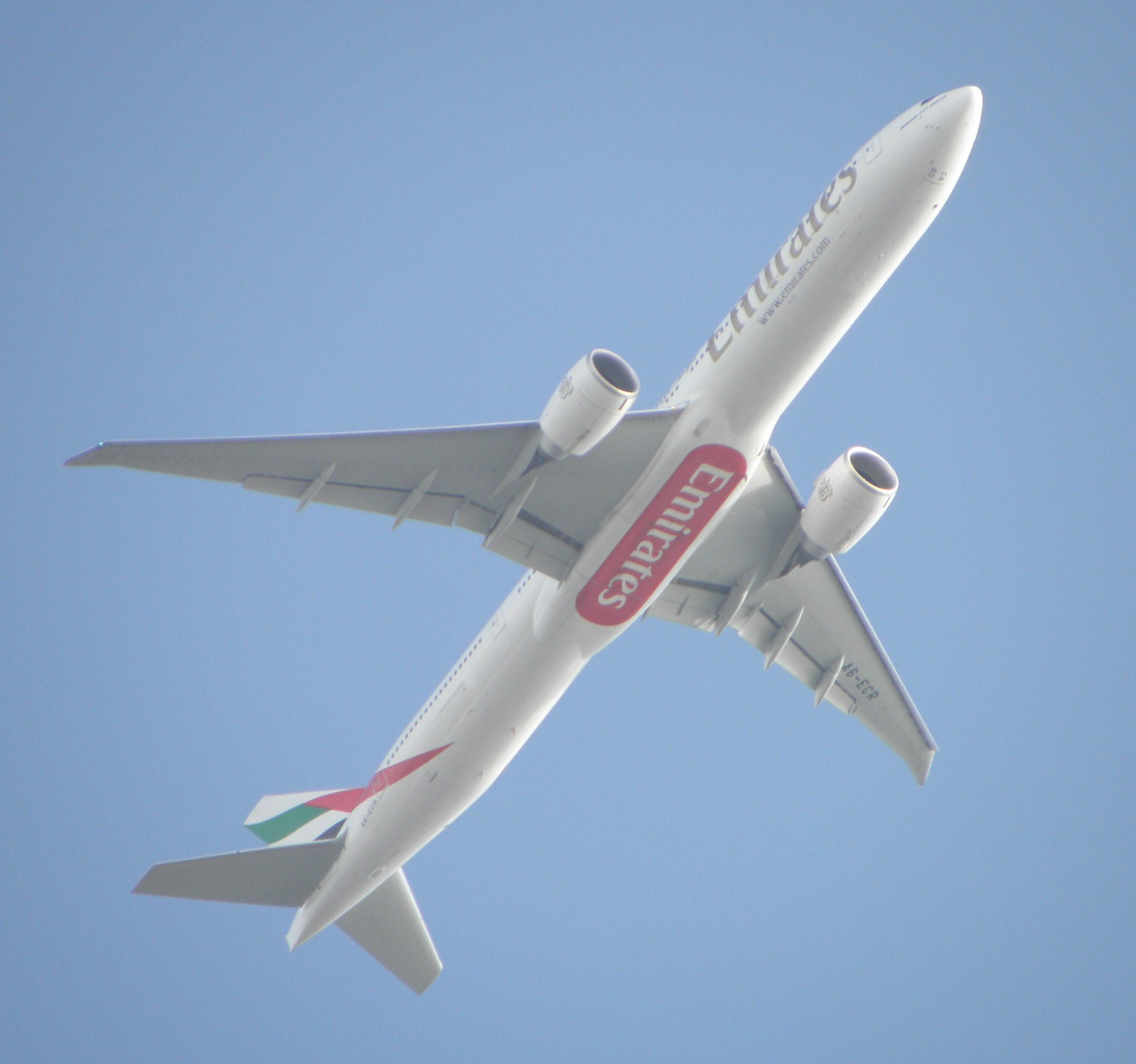 Emirates Boeing 777-300ER aircraft A6-ECR flying over Greenwich, London, en route to London Heathrow.